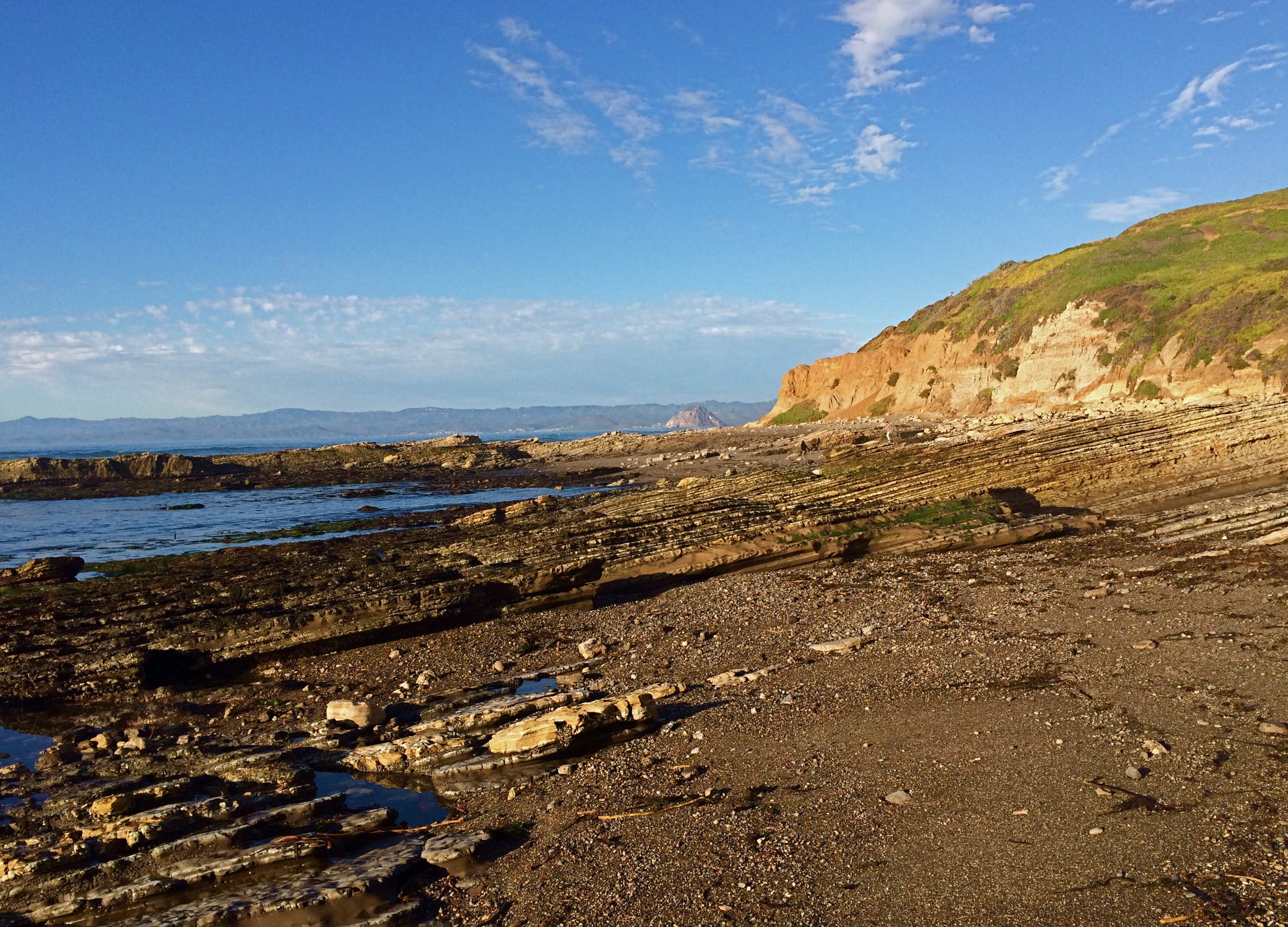 Hazard Reef, looking north to Morro Rock. The late Miocene marine sediments here are tilted 10 or 20 degrees to the northwest which makes for perfect "structural" tide pools as the tide goes out. See Montery formation for general geology of these rocks. By memory these are the Miguelito member, marly siltstones with prominent dessicatin cracking on the bedding planes.